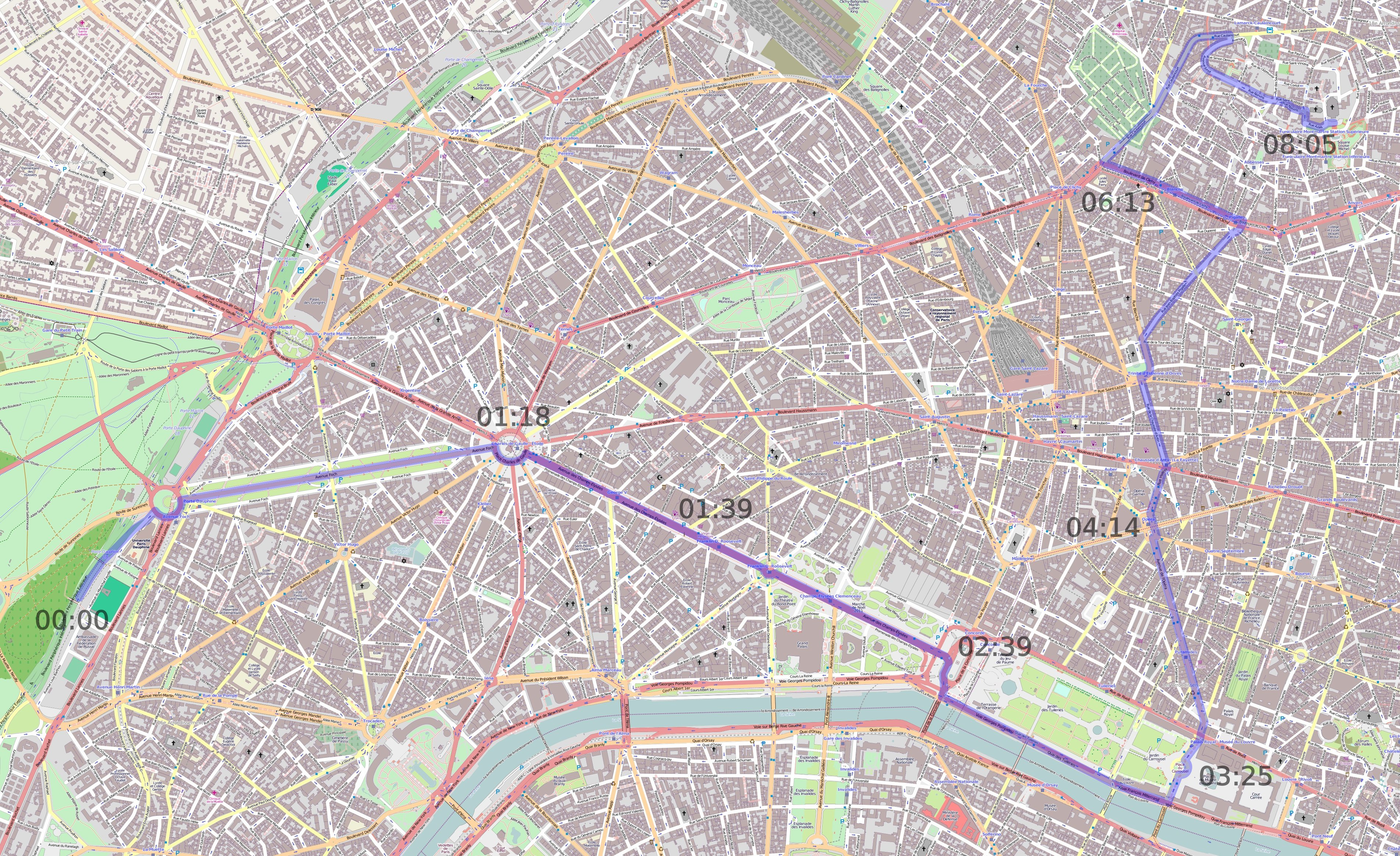 Path with time markers on a Paris map for "C'était un rendez-vous" Claude Lelouch 1976 film.